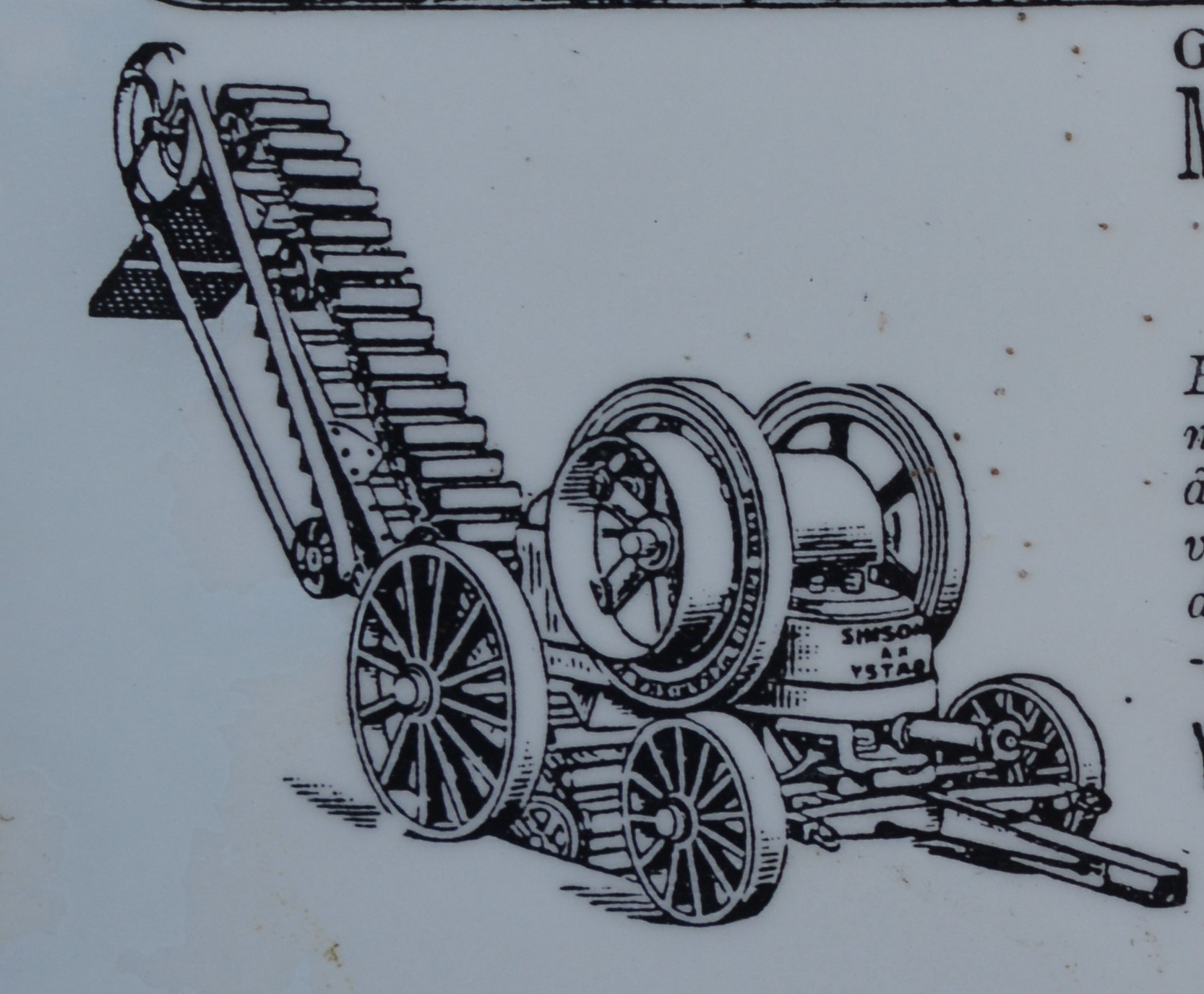 Stone and ore crusher "Ysta Simson" from Ystads Gjuteri & Mekaniska Verkstads AB